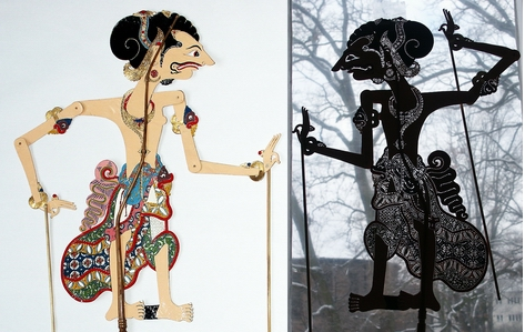 Nursiwan, wayang kulit figure from the epos Serat Menak Sasak